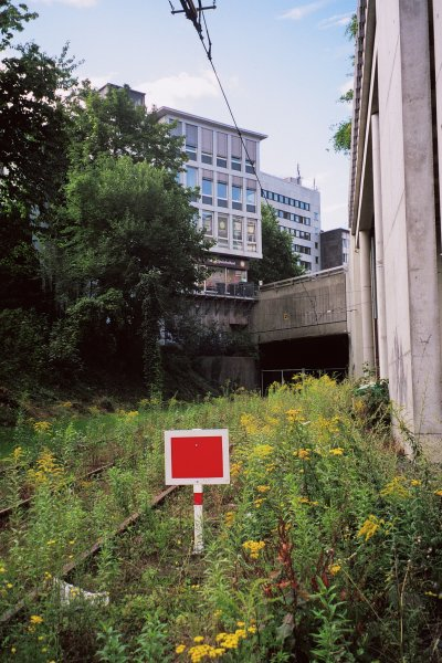 North Mouth of the former Tunnel of Kassel Tramway at "Hauptbahnhof" (Central Station)